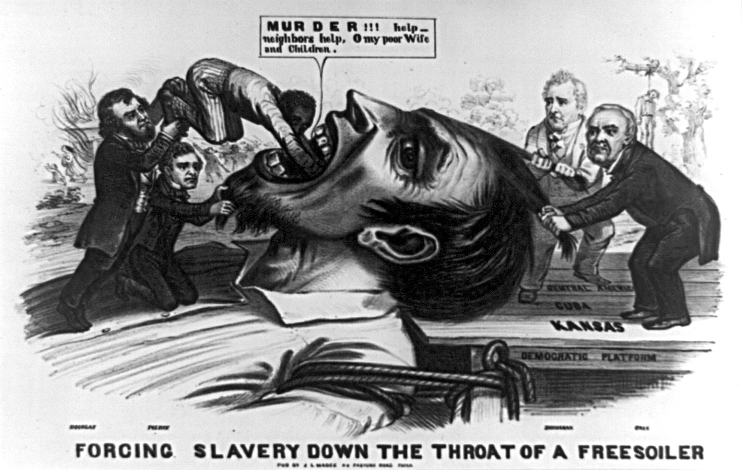 An 1856 cartoon depicts a giant free soiler being held down by James Buchanan and Lewis Cass standing on the Democratic platform marked "Kansas", "Cuba" and "Central America". Franklin Pierce also holds down the giant's beard as Douglas shoves an African American down his throat.